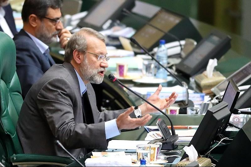 Plasco disaster report inIslamic parlement Iran